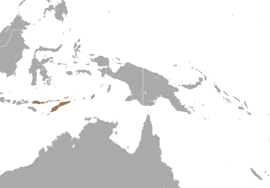 Keast's Tube-nosed Fruit Bat (Nyctimene keasti) range